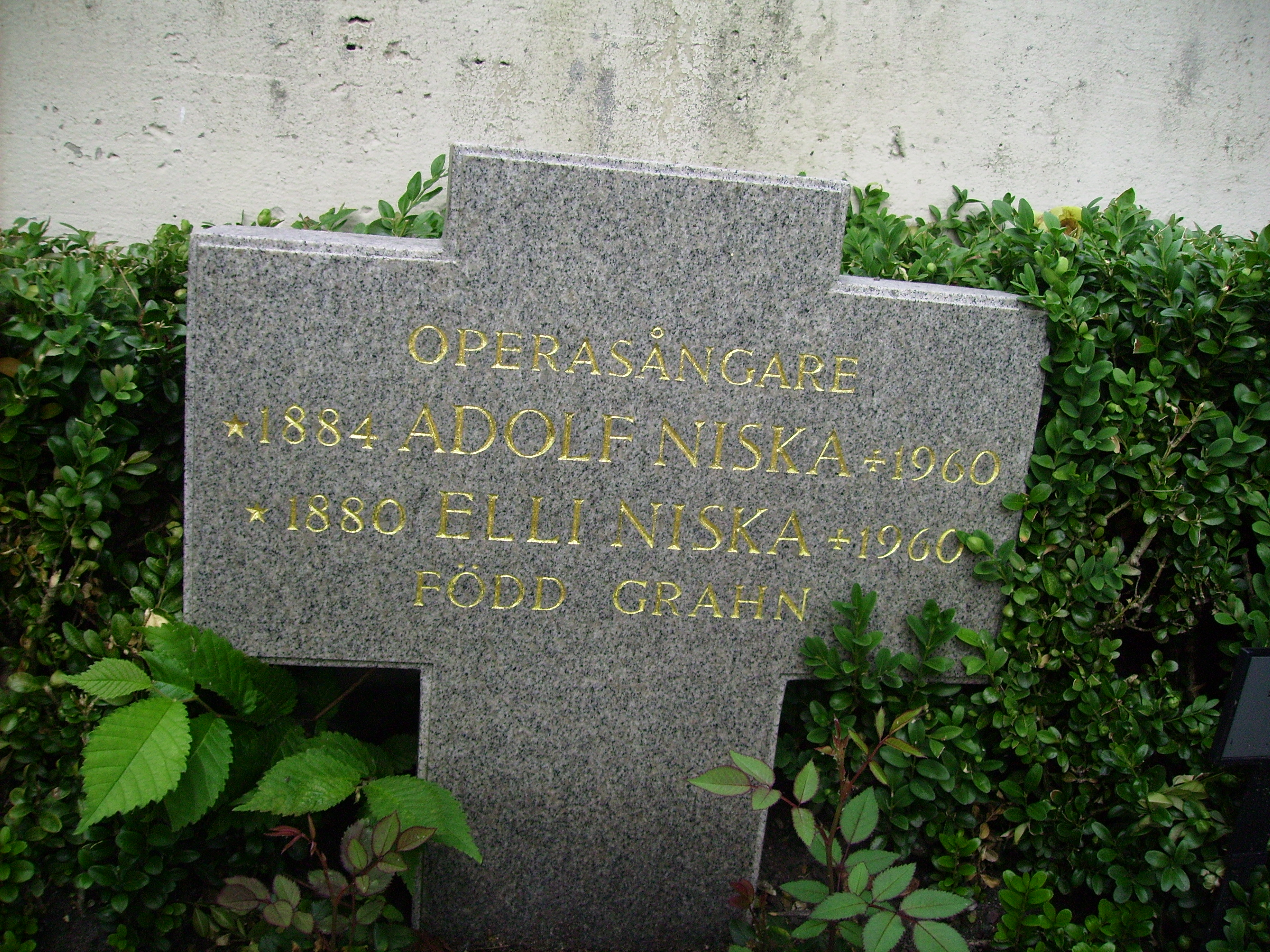 Picture of Adolf Niska's grave at Skogskyrkogården in Stockholm.